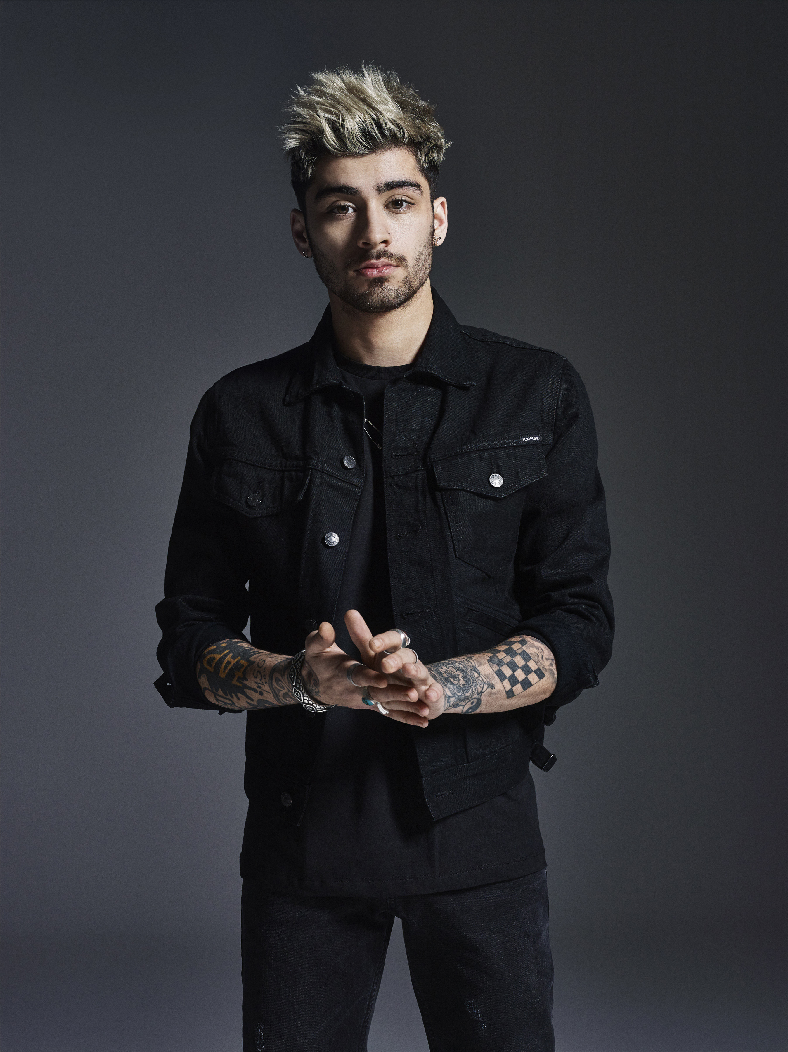 Photo of Zayn Malik